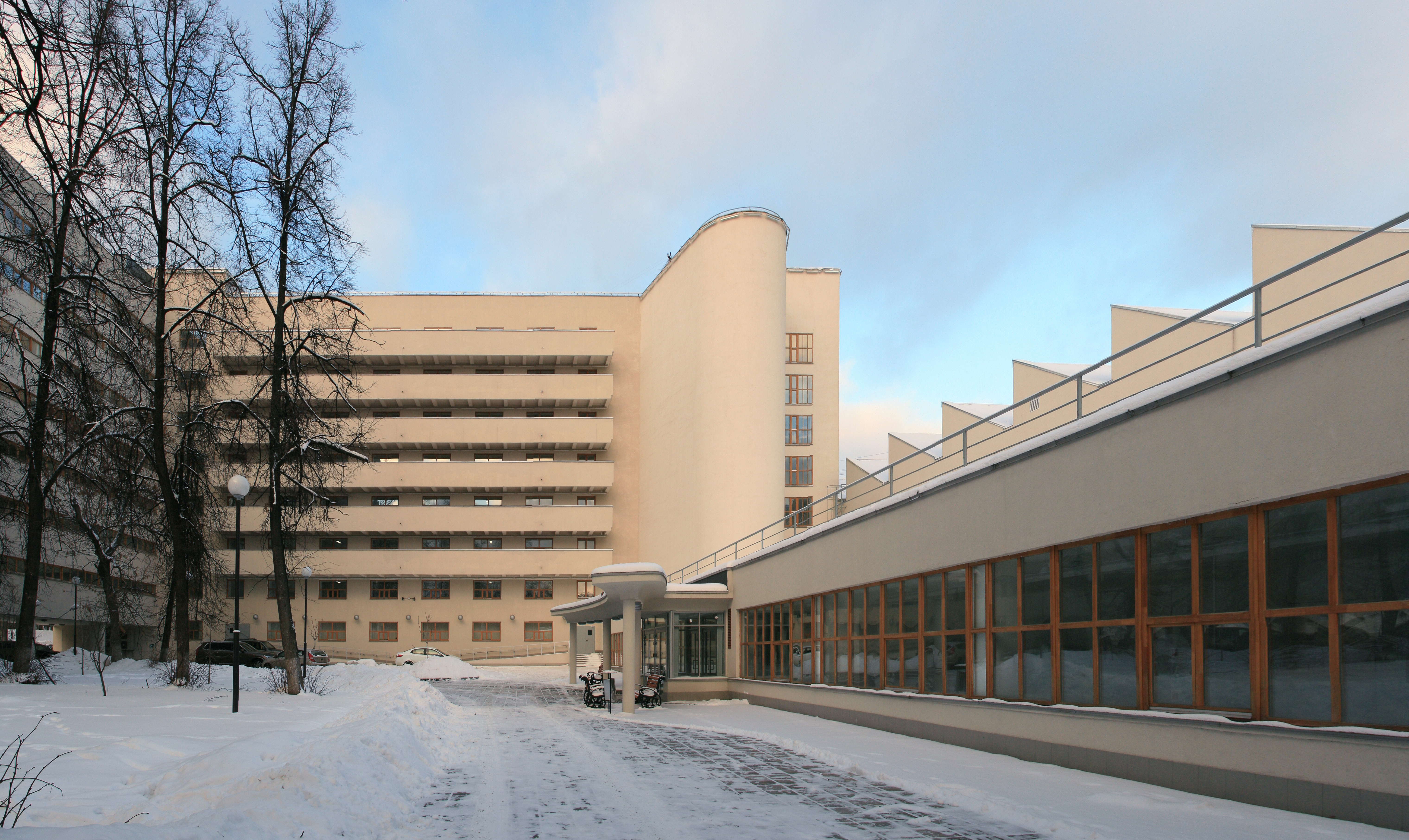 Communal House, Ordzhonikidze Street/Donsloy proezd 8/9, Moscow, Russia